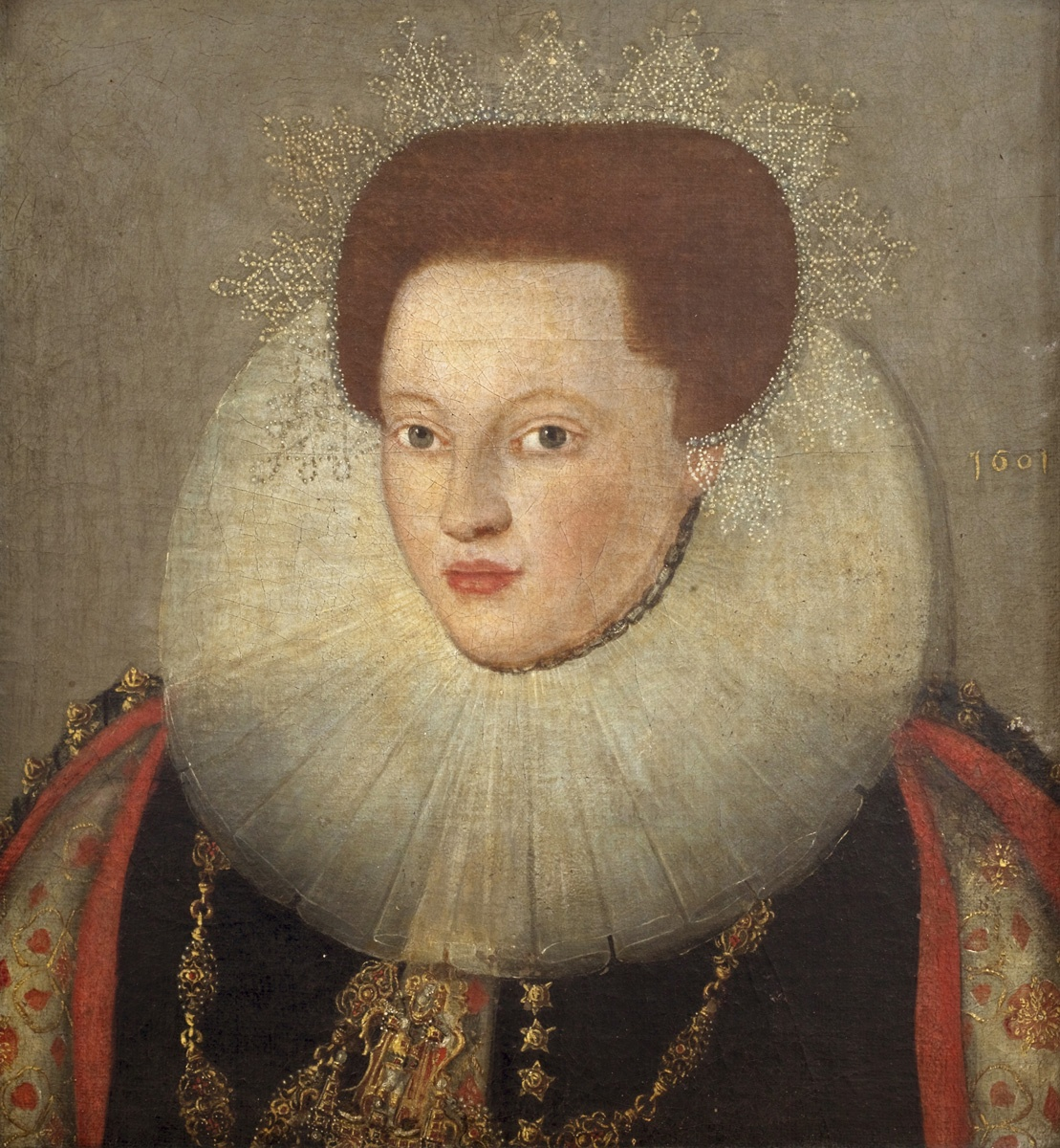 Brustbildnis der Prinzessin Sophie Elisabeth von Anhalt-Dessau (1589-1622) mit großem Mühlsteinkragen. Die Bennung der Dargestellten folgt der historischen Überlieferung, eventuell ist die Dargestellte jedoch Anna Sophia von Anhalt (1584-1652). (KSDW)